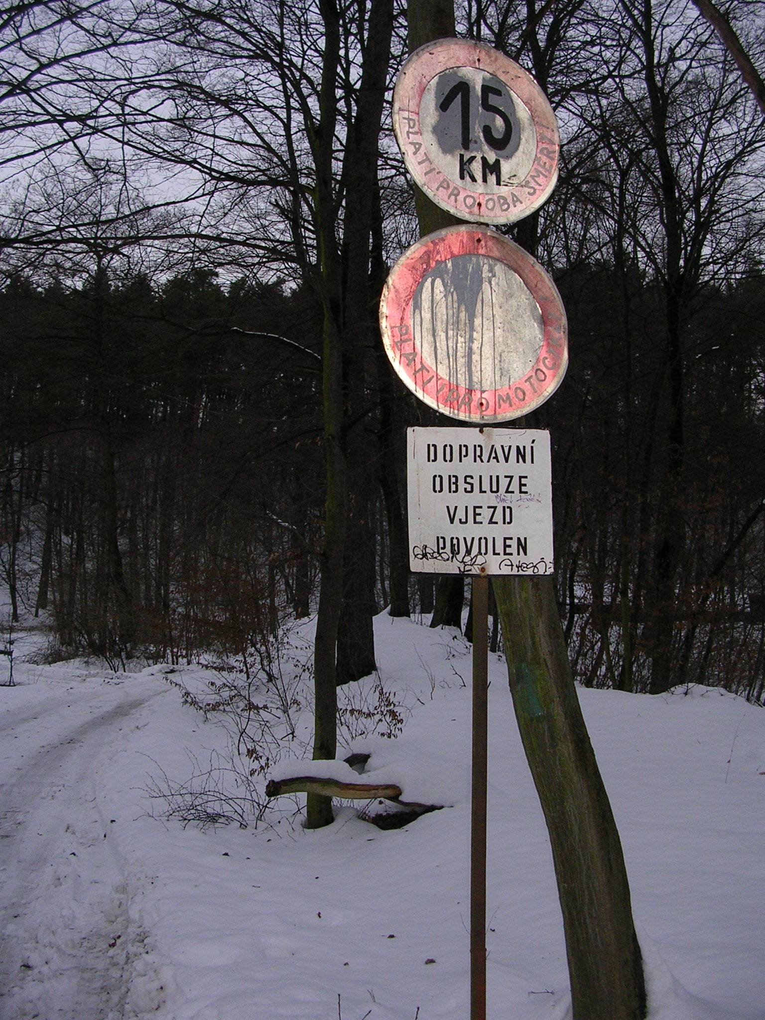 Kozojedy, Central Bohemian Region, the Czech Republic.